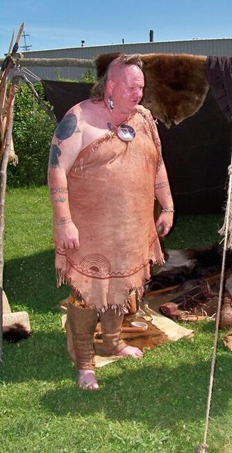 Elnu Abenaki Chief Roger Longtoe Sheehan 2009